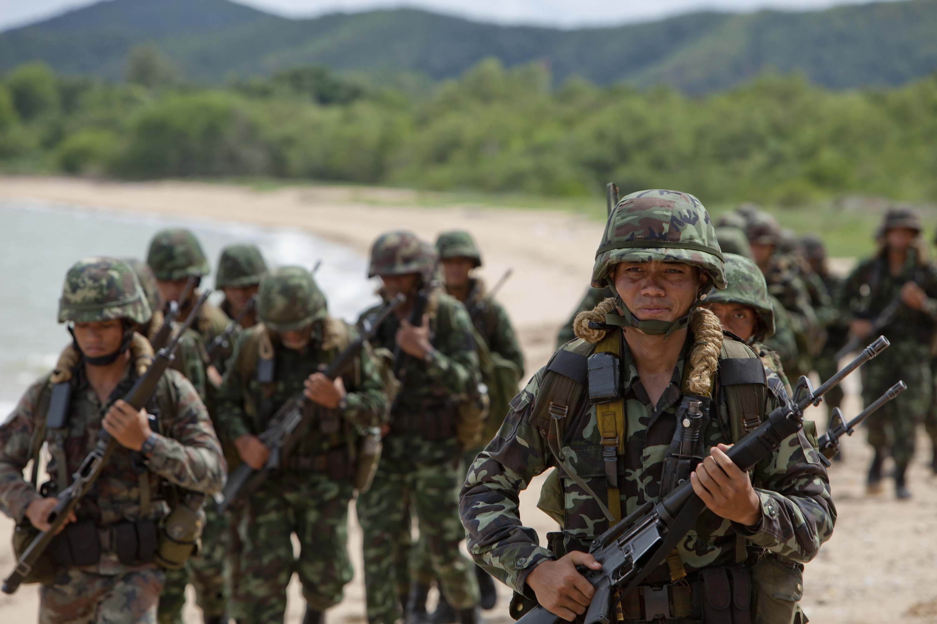 Thai marines prepare for amphibious assault training with U.S. Marines assigned to the 2nd Assault Amphibian Battalion, 2nd Marine Division during Cooperation Afloat Readiness and Training (CARAT) 2013 at Camp Samae San in Sattahip, Thailand, June 6, 2013. CARAT is a series of bilateral exercises held annually in Southeast Asia to strengthen relationships and enhance force readiness.